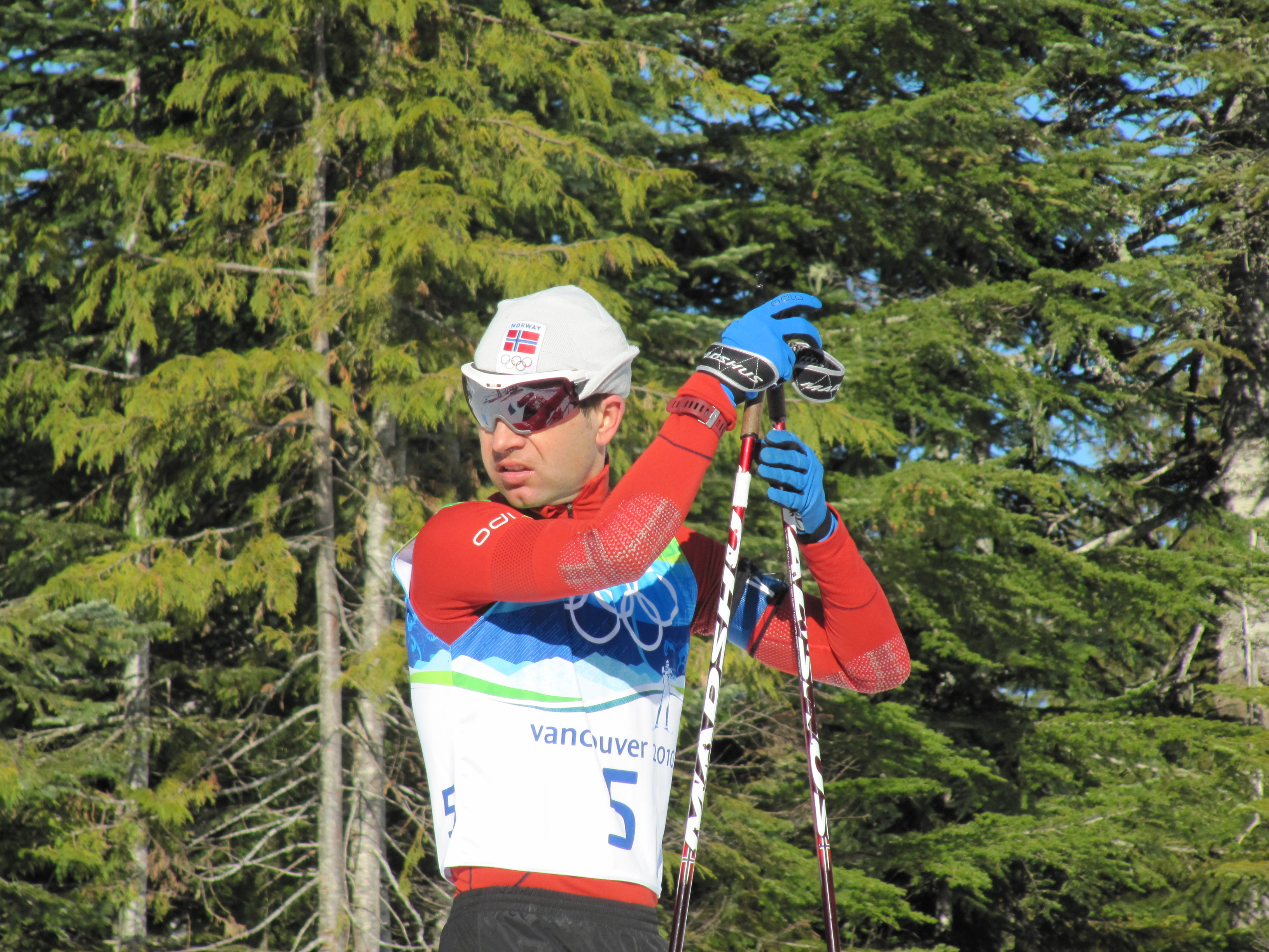 2010 Winter Olympic Games - Men's Biathlon 15 km Mass Start, Whistler Olympic Park in British Columbia, Canada ole Einar Bjørndalen